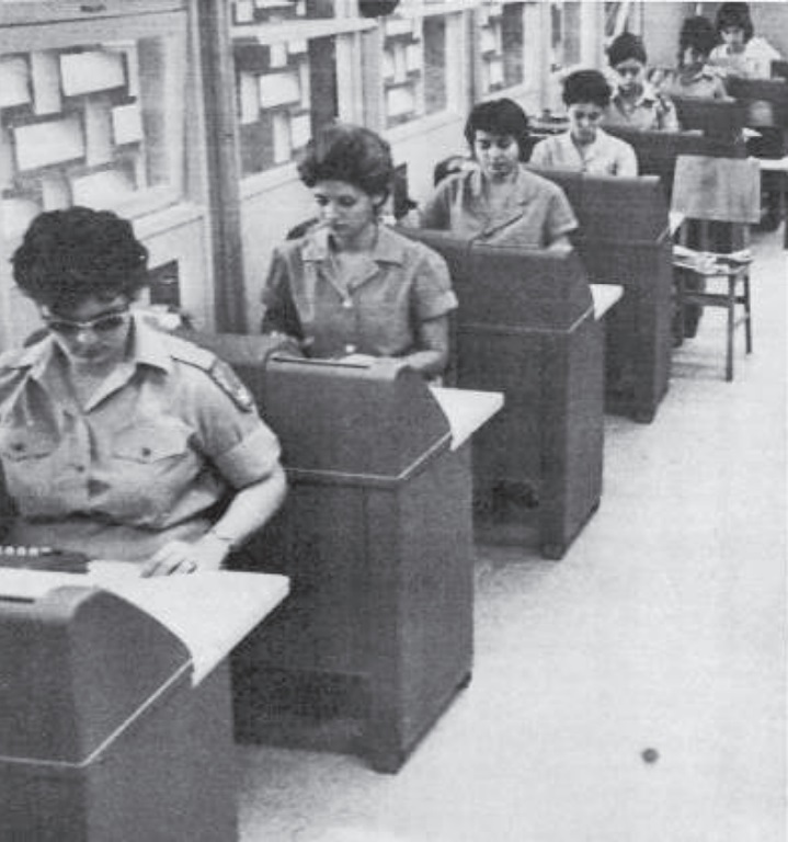 Keypunch operators at Mamram